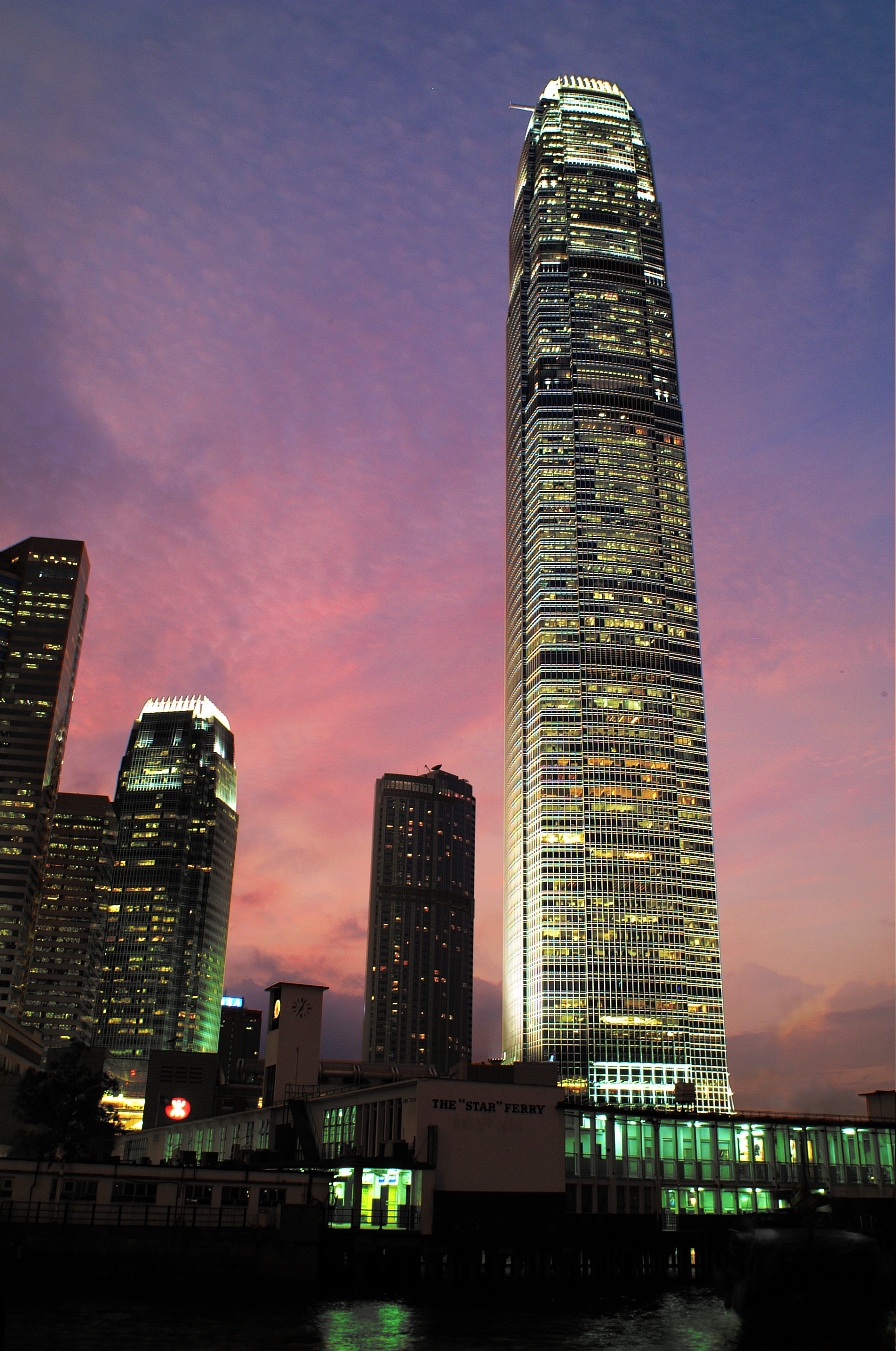 International Finance Centre(IFC). A prominent landmark on Hong Kong Island. A filming location in Batman film (2008)-"The Dark Knight." Right side is the IFC phase II which is the tallest building in Hong Kong untill 2008. Central part of the pictures show the Four Season Hotel (the shortest building) which is a part of IFC. The left part of the pictures shows the IFC phase I. Bottom part of the photo shows the historical Star Ferry Pier in Central Hong Kong. The star ferry was broke down in 2006.